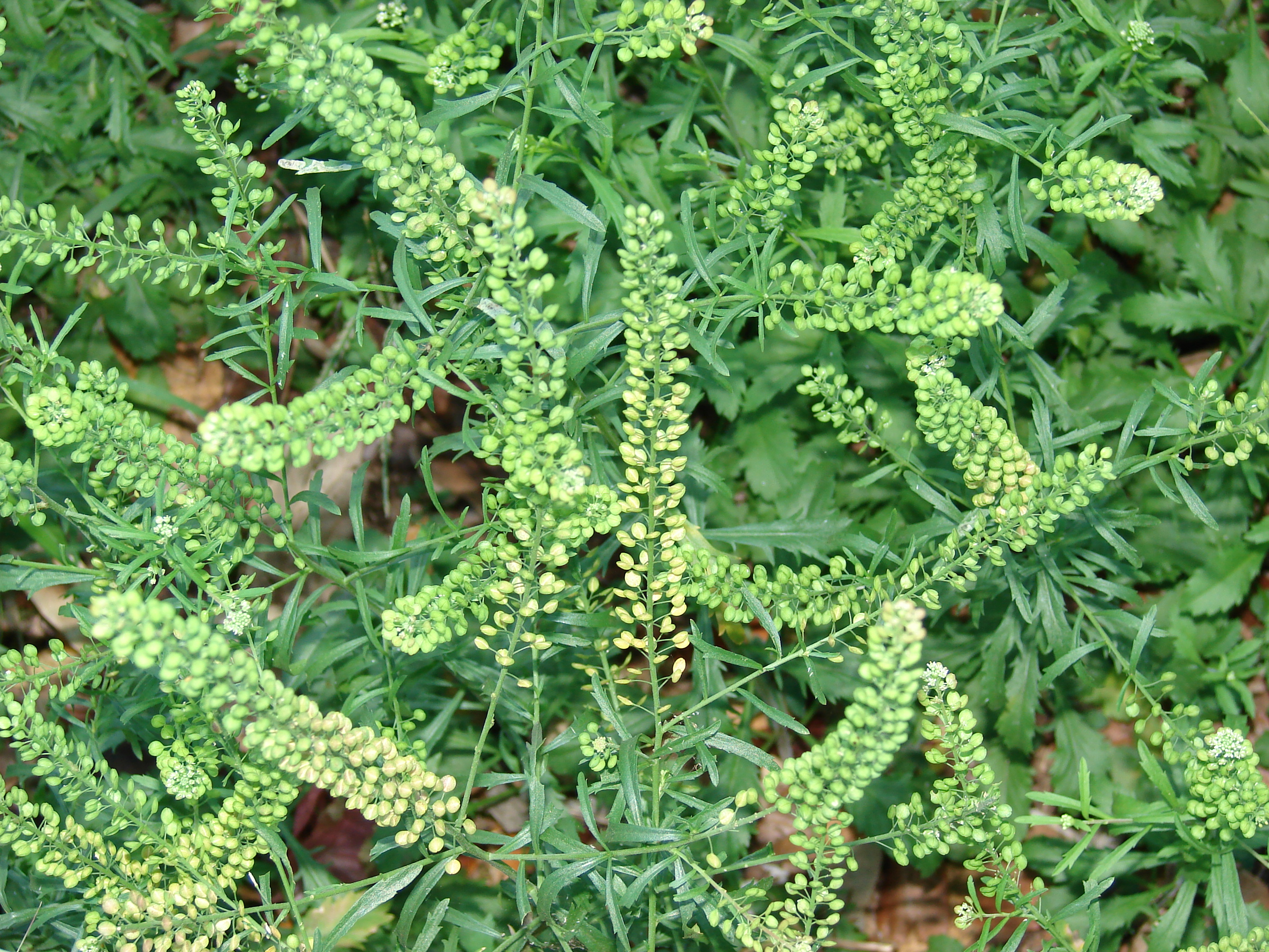 Lepidium virginicum (seedheads). Location: Maui, Kihei